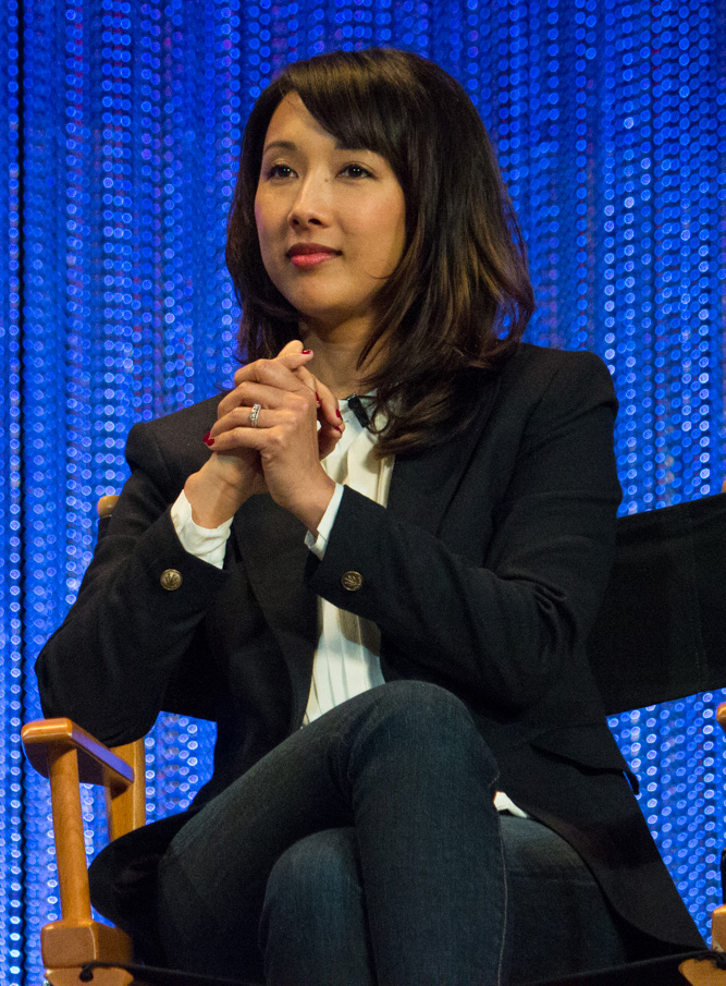 Maurissa Tancharoen at PaleyFest 2014